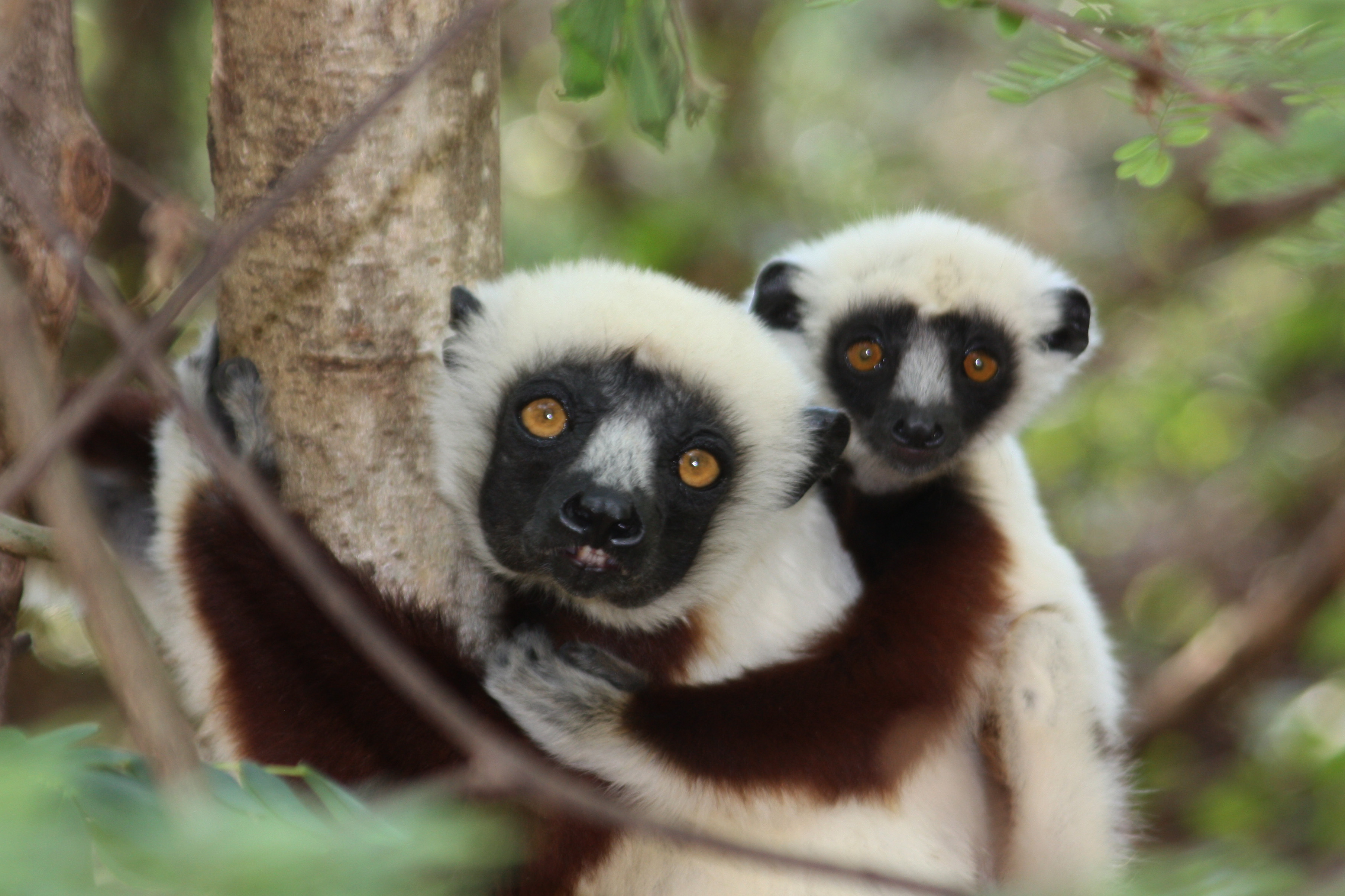 Coquerel's sifaka lemur and young (Propithecus coquereli) in the Anjajavy Forest, Madagascar